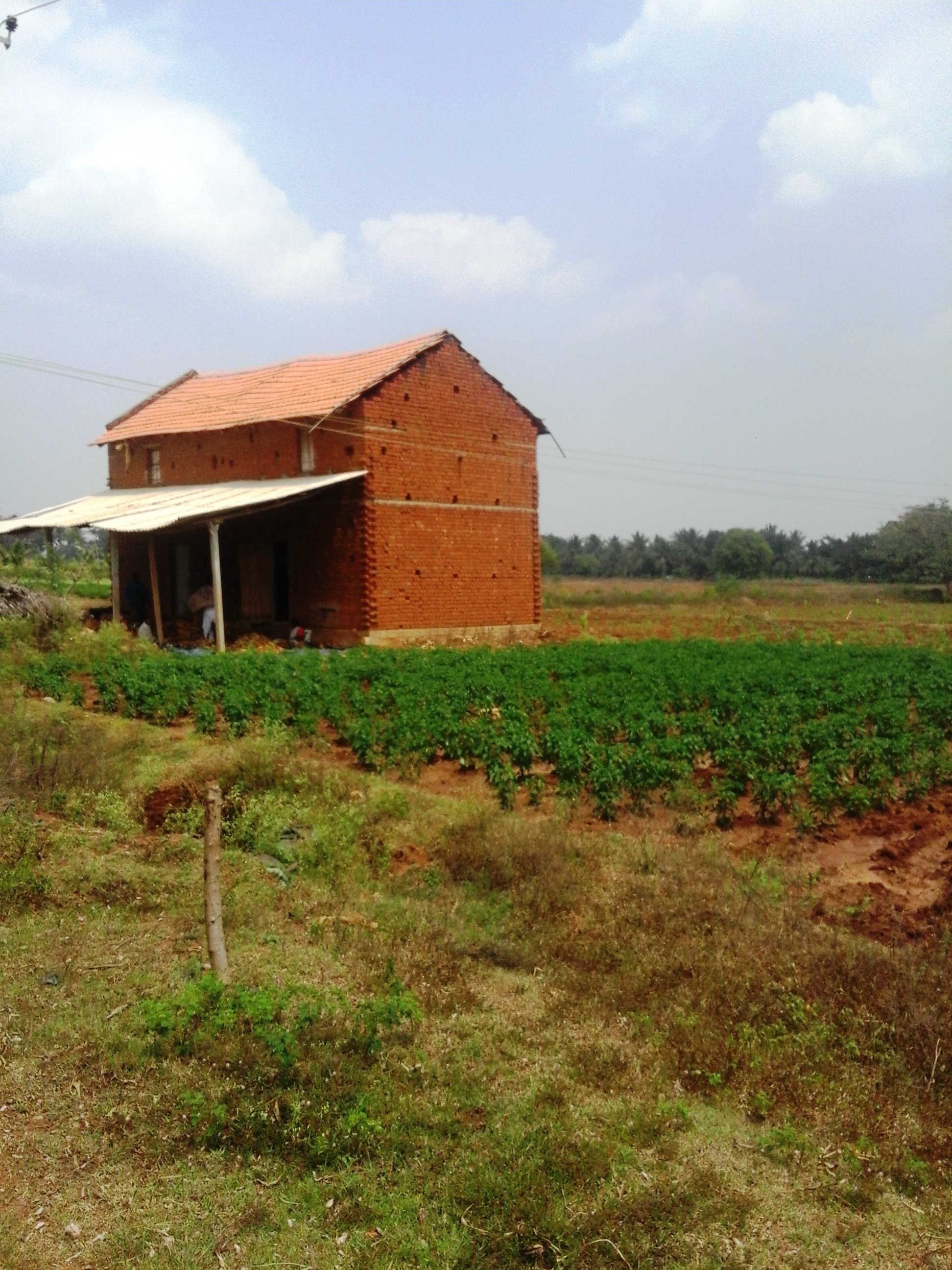 K.R.Nagar, Mysore district, Karnataka state, India.